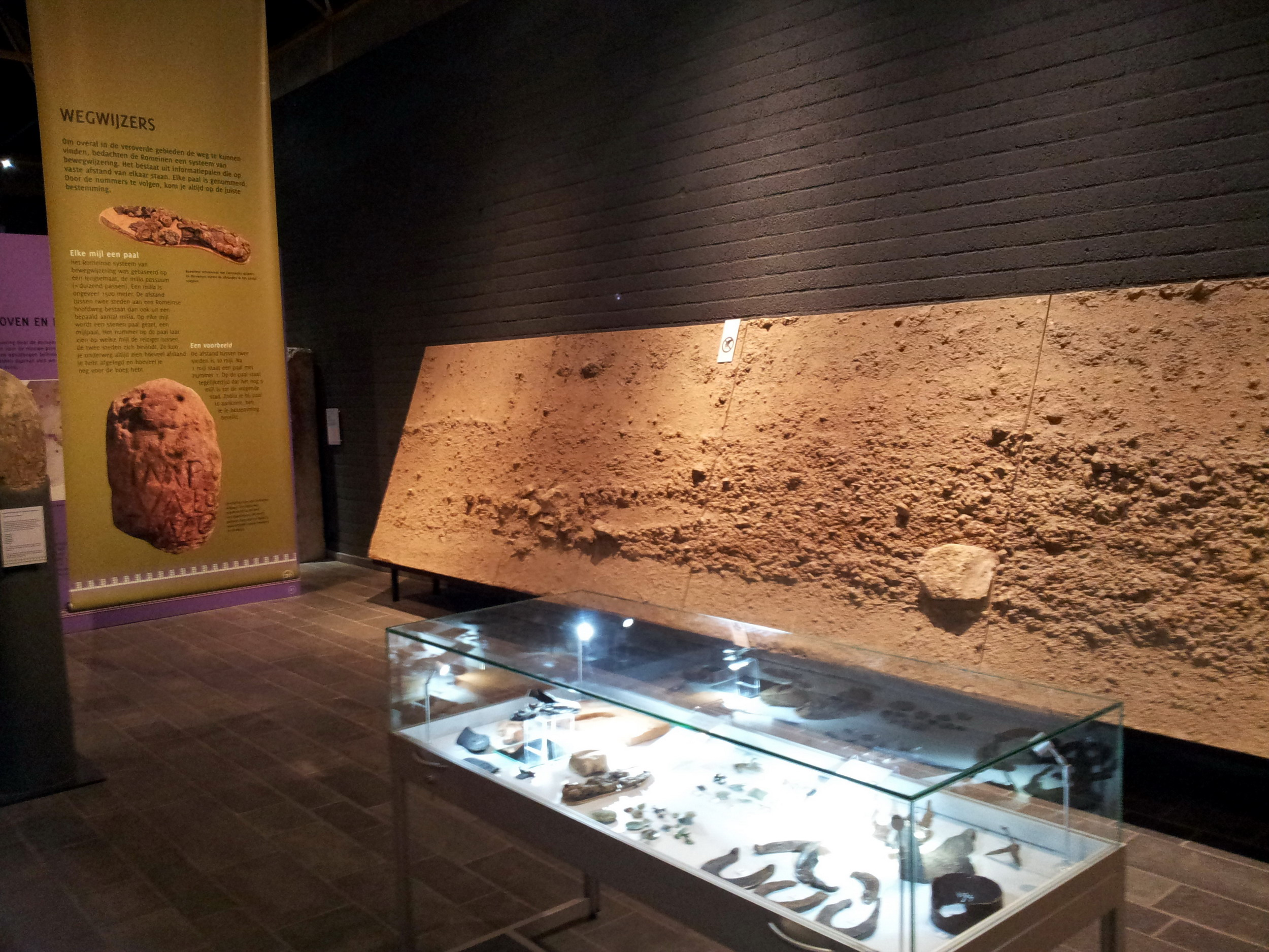 Heerlen, Limburg, the Netherlands. View of a temporary exhibition on "Via Belgica" in the Thermenmuseum in Heerlen in 2013. In the background a reconstructed profile of a section of Via Belgica, the Roman main road between Cologne and Boulogne-sur-Mer.